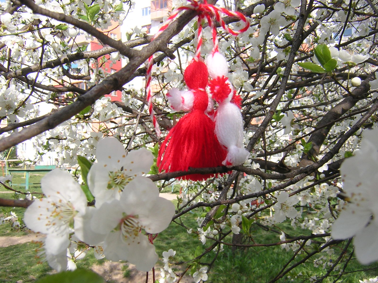 A Pizho&Penda-martenitsa tied to a blossoming fruit tree.